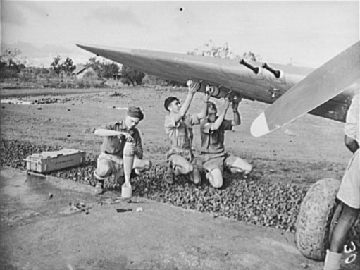 A Royal Air Force Curtiss Mohawk Mk.IV fighter being serviced in India in January 1943. No 5 and No 155 squadrons RAF used the Mohawk in India in 1942/43. Original caption: "Somewhere in Eastern India. Royal Air Force men are putting bombs on legs of a "Mohawk." These excellent fighters carry six bombs as well as six machine guns."